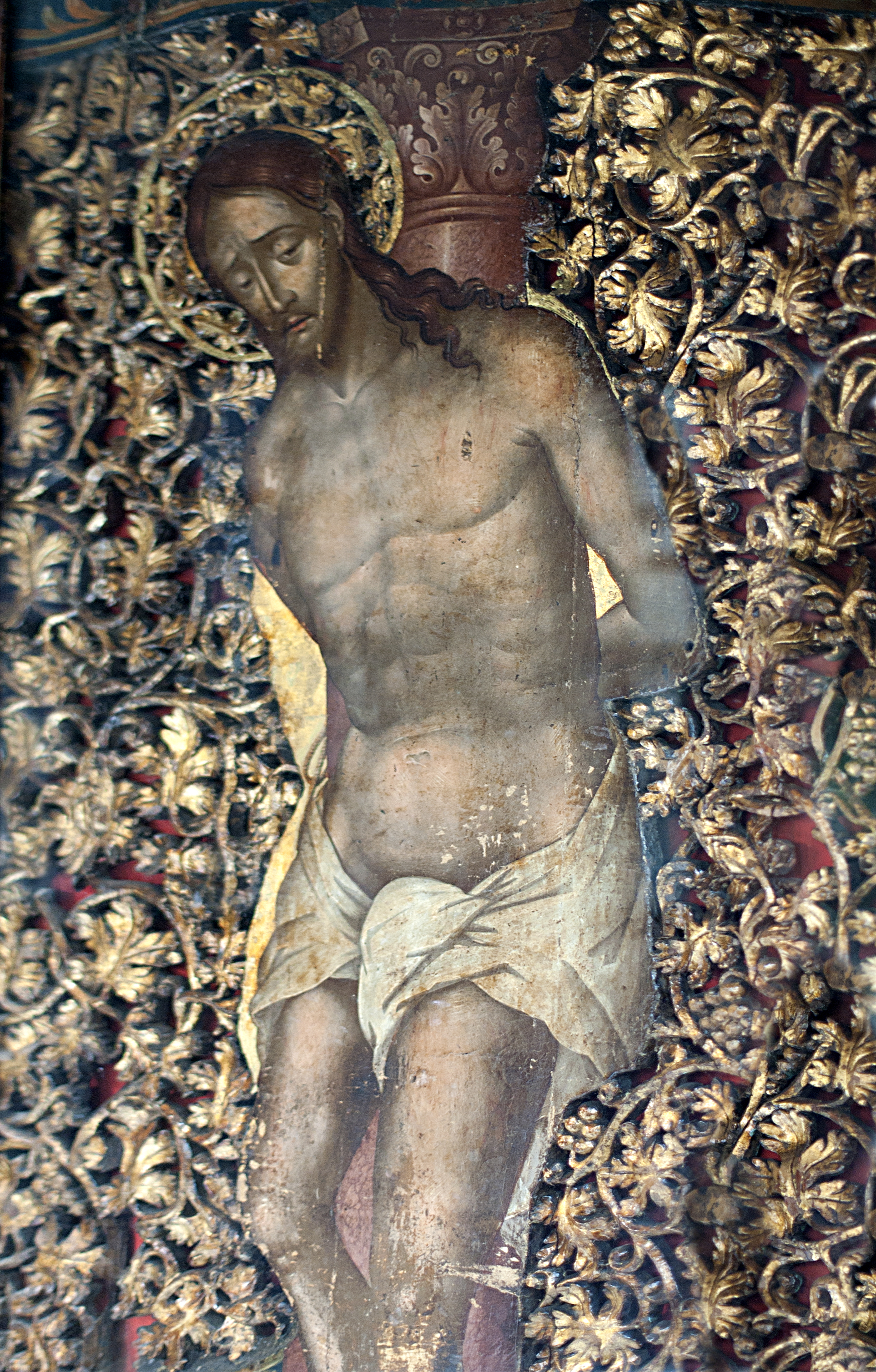 Jesus "Elkomenos" (Pulled to the Cross). An Ecce homo type painting by Elias Moskos. Signed and dated 1648. Church of St. Charalambos, Preveza, Greece.